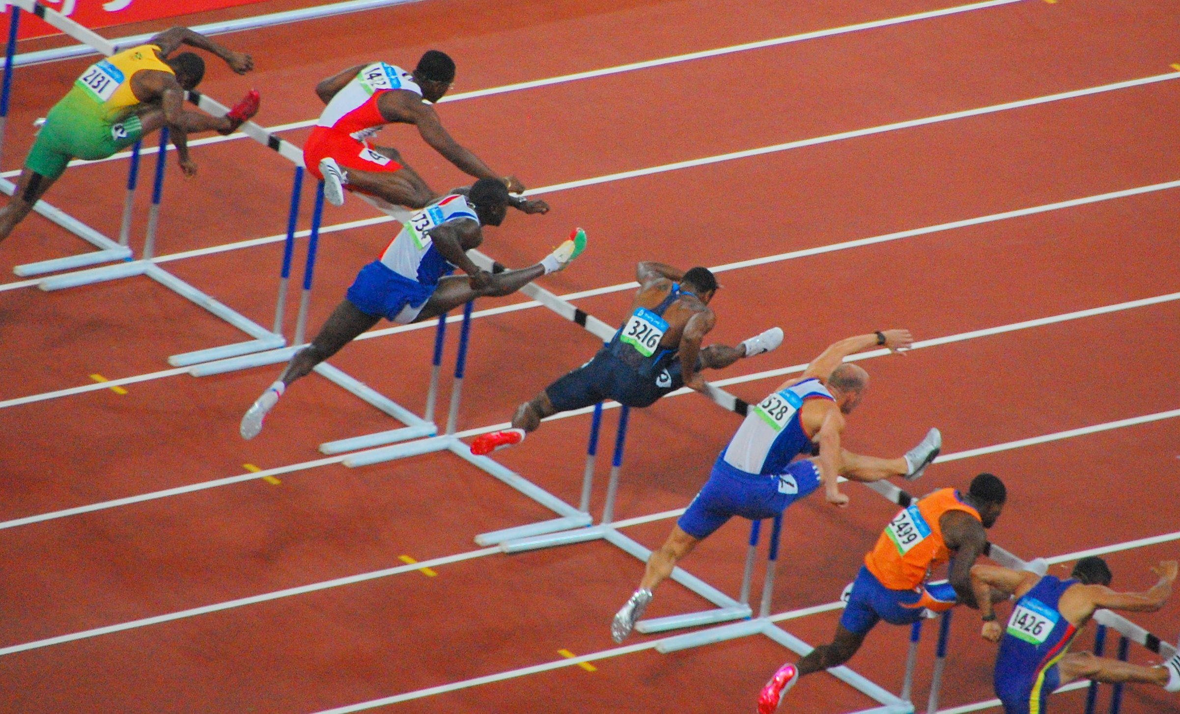 2008 Summer Olympics - Men's 110m Hurdles - Semifinal 1 From the left : PHILLIPS Richard, ROBLES Dayron, DOUCOURE Ladji, PAYNE David, SVOBODA Petr, SEDOC Gregory, VILLAR Paulo